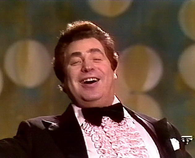 A screenshot of my father's performance of the song "Along the Peterskaya (Street)" (Vdol po Piterskoy), 1983.